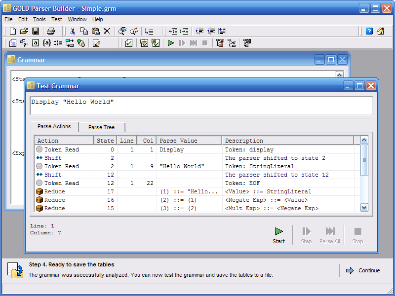 This is a screenshot from the GOLD Parser Builder application. The screenshot shows the interactive testing capabilities (work still needs to be done.)